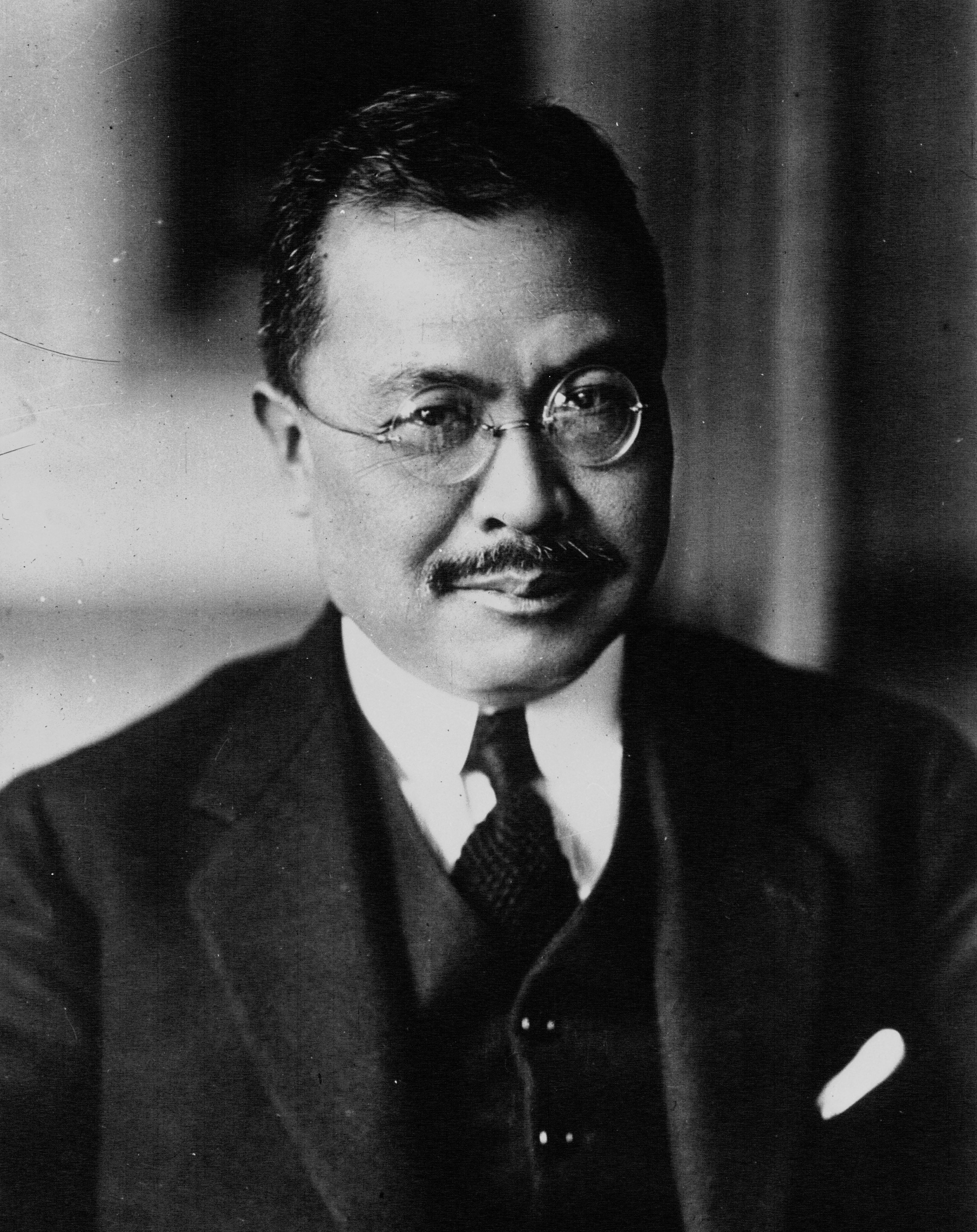 Japanese politician Kijūrō Shidehara (1872-1951) as Minister of Foreign Affairs in 1930.